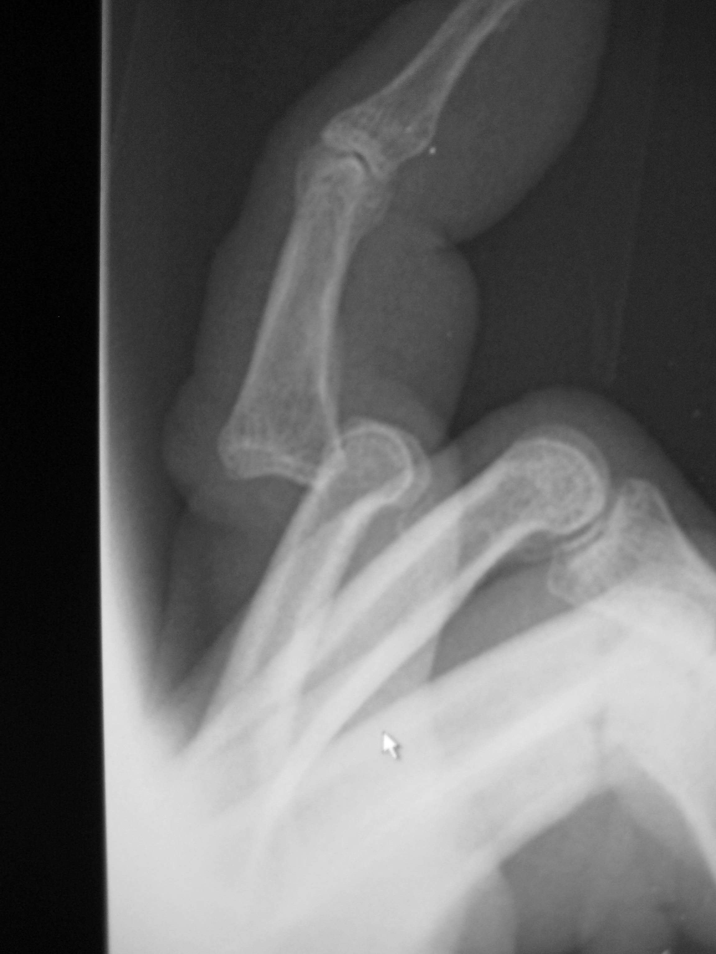 Traumatic dislocation of the proximal interphalangeal joint.